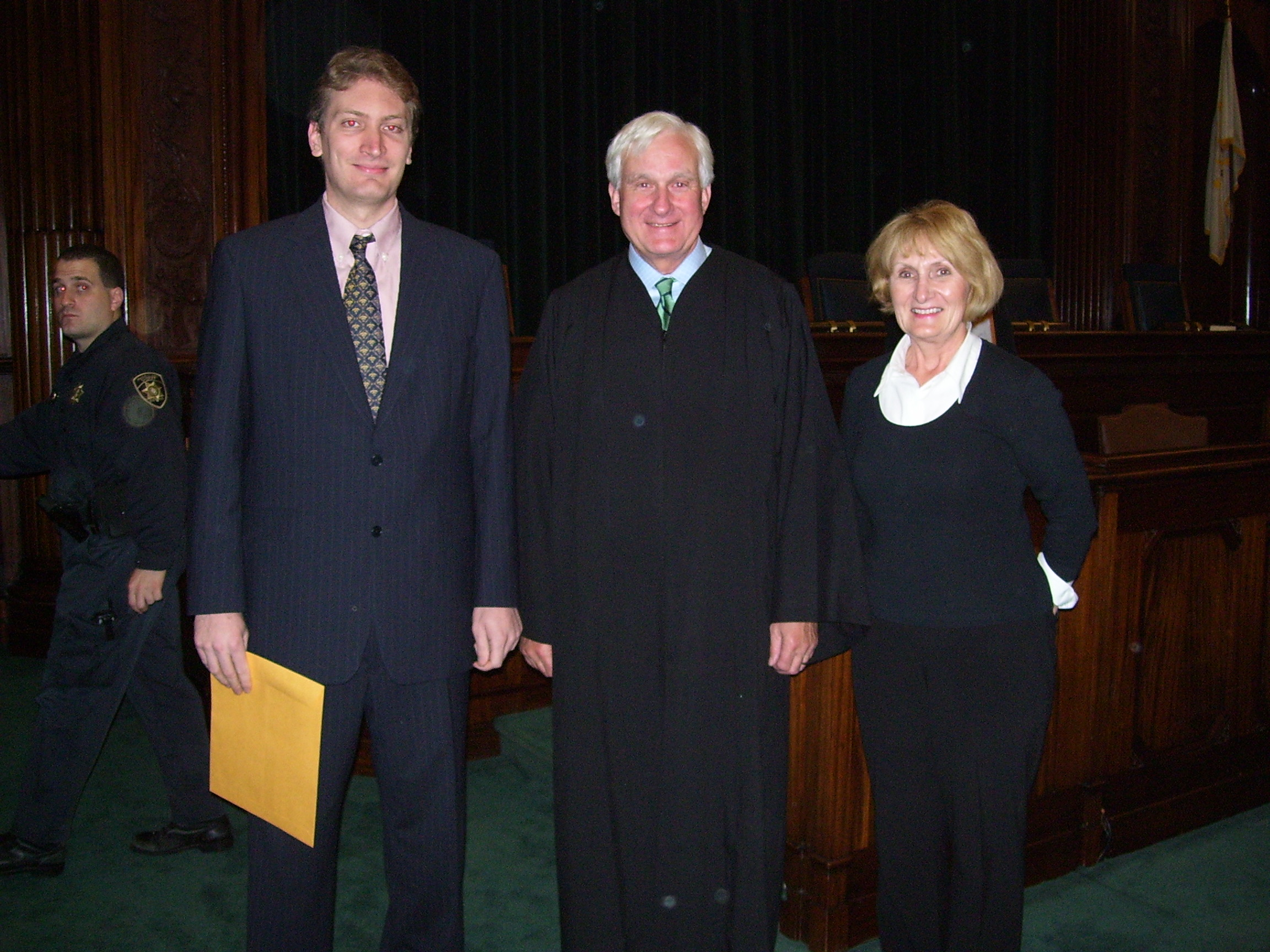 This is my 2008 photo of Paul Suttell at a Bar Swearing Ceremony in November 2008.